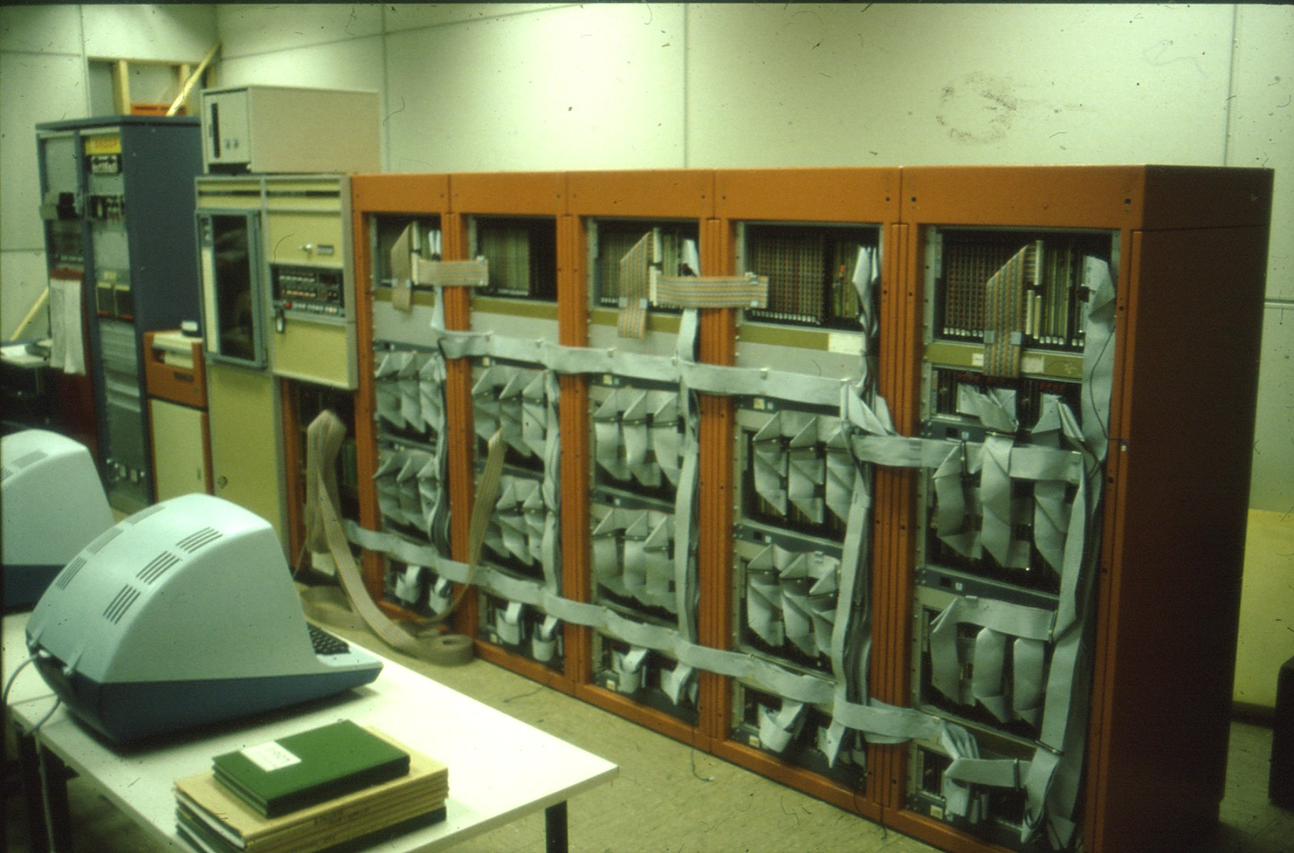 Multicomputer for signal processing 1974